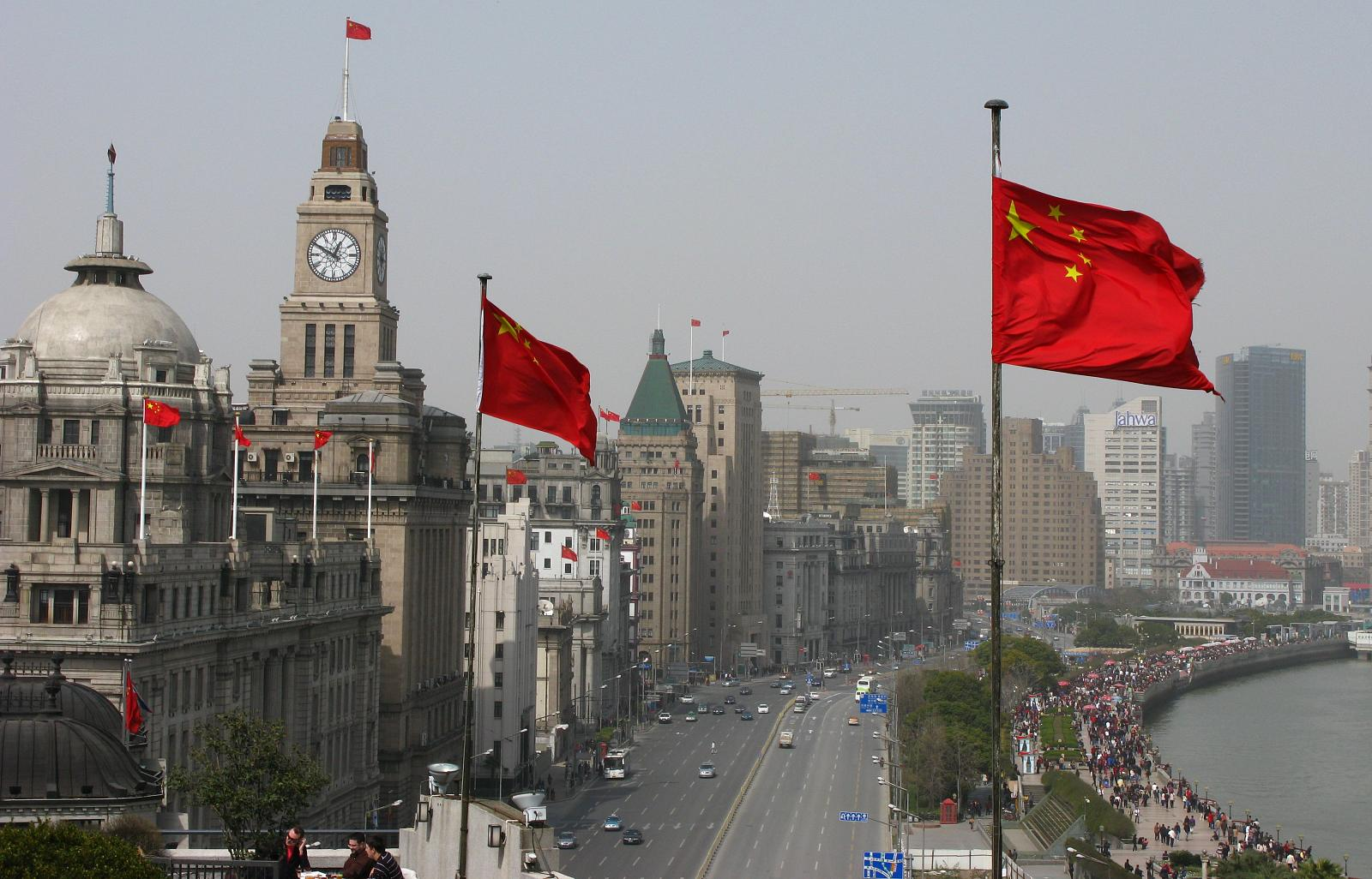 A view on the Bund, in red and grey.